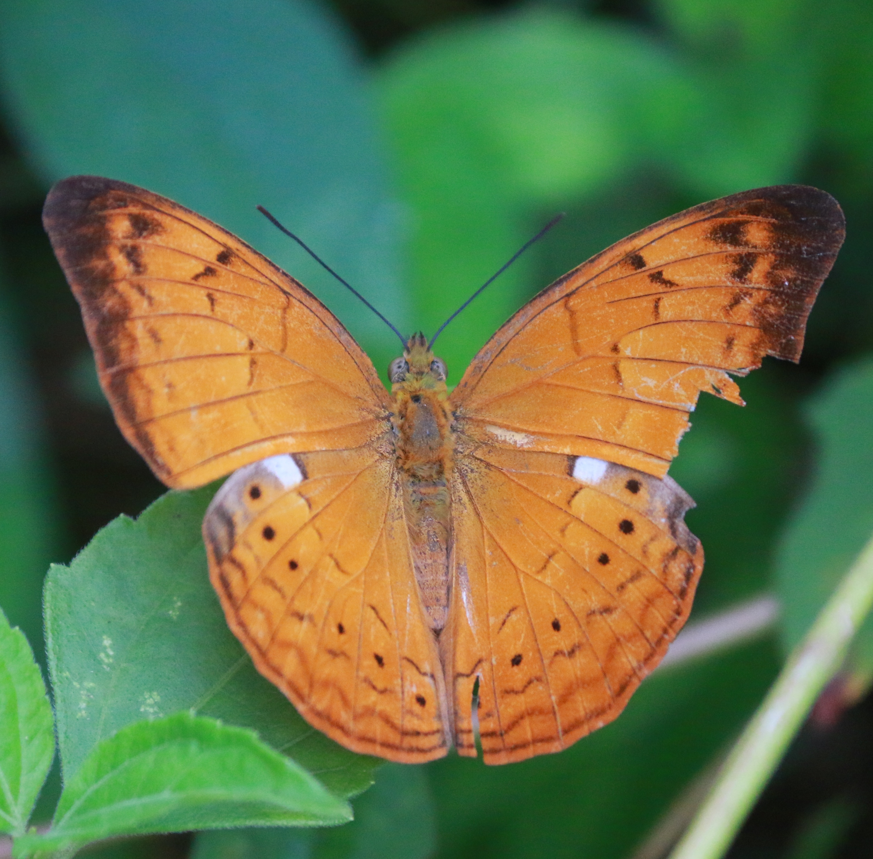 Tamil yeoman,Cirrochroa thais